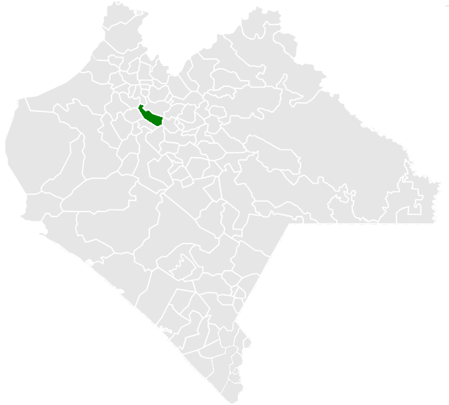 Map of the Municipalty of Bochil in the State of Chiapas, México.